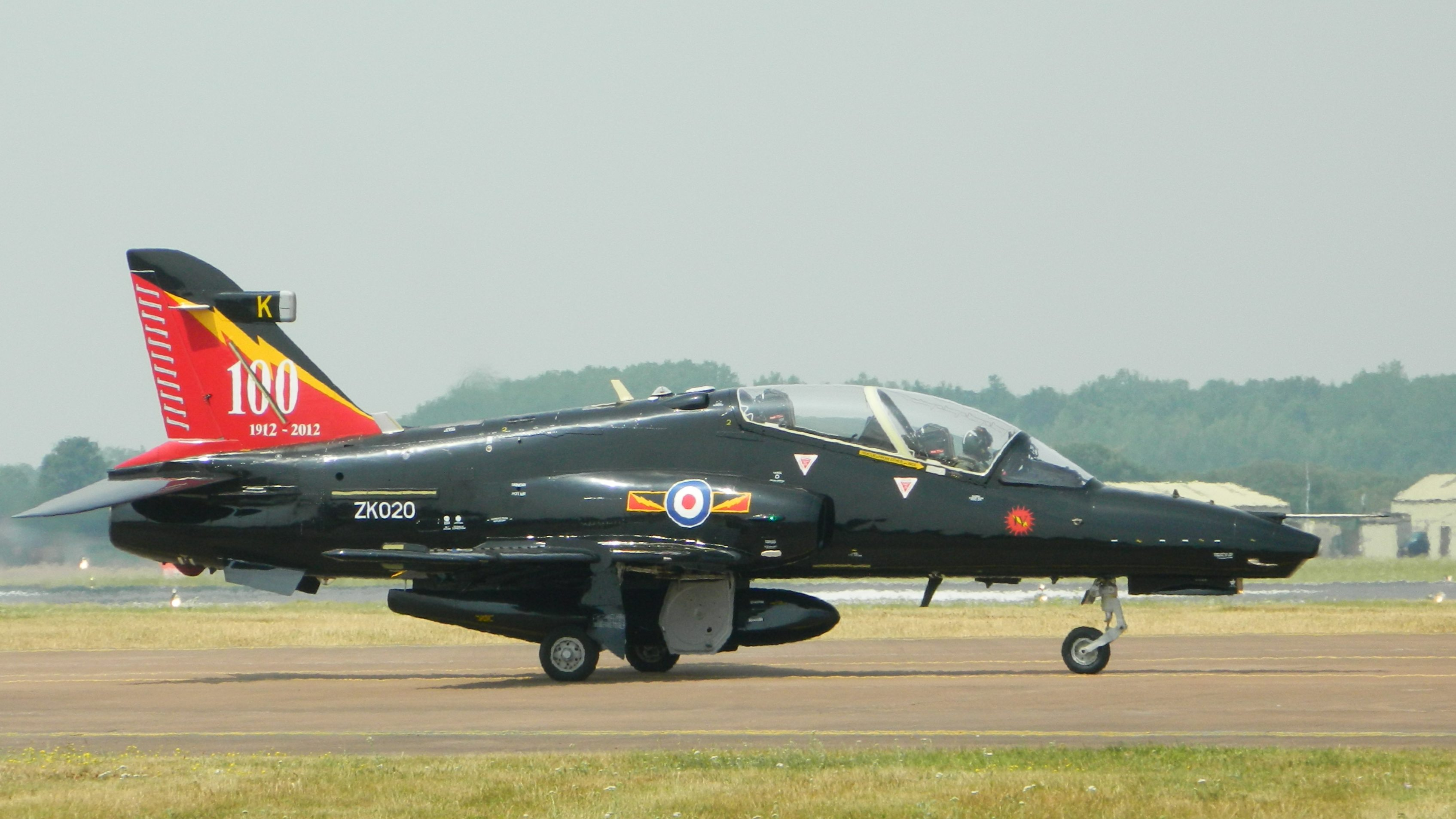 Royal Air Force BAE Systems Hawk T2 serial number ZK020 departs RAF Fairford on the Royal International Air Tattoo departure day Monday 22 July 2013. In special marking for the 100th anniversary of No. 4 Squadron RAF